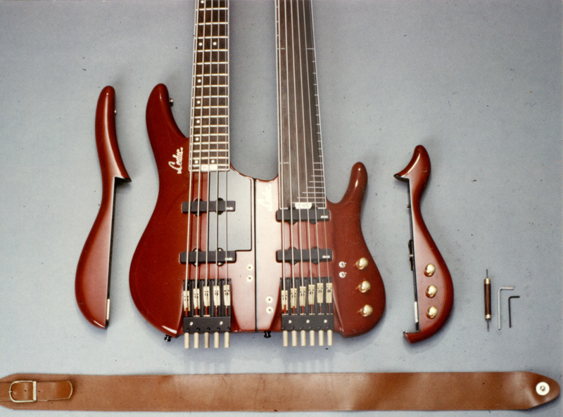 Leduc basse, double neck, 5 string fretted and 6 string fretless, separable, light weight, made in 1988 for Manuel Munoz (France)